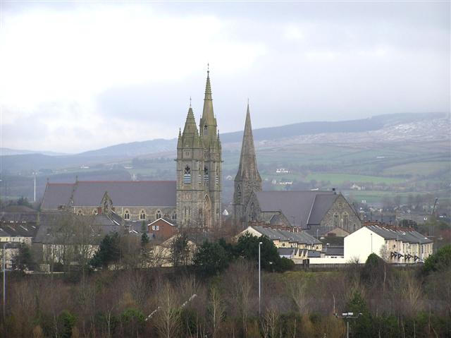 Part of Omagh, County Tyrone, seen from Dromore Road. On the left is the Roman Catholic church of the Sacred Heart. On the right is St Columba's Church of Ireland church. In the background is Rylagh Top at the western edge of the Sperrin mountains.